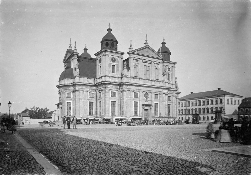 Kalmar Cathedral at the Main Square. The Cathedral, created by Nicodemus Tessin Senior, was inaugurated in 1682. It's concidered to be the greatest Baroque Church in Sweden.